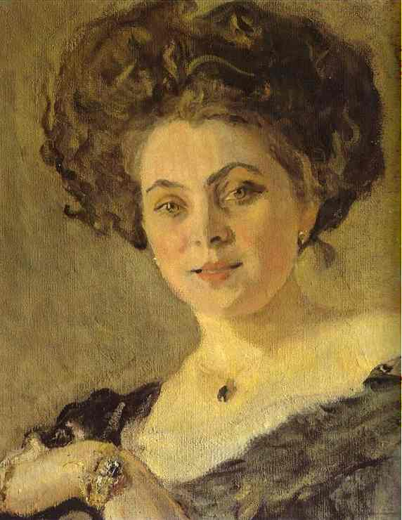 Portrait of Yevdokia Morozova. Detail. 1908. Oil on canvas. The Tretyakov Gallery, Moscow, Russia.